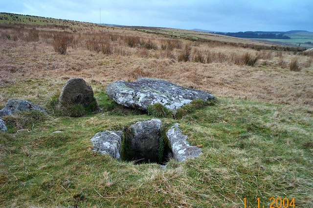 The Crock of Gold cist - Dartmoor. A Bronze Age tomb. The dislodged cover stone lies behind and the whole cist is contained within a small stone circle.